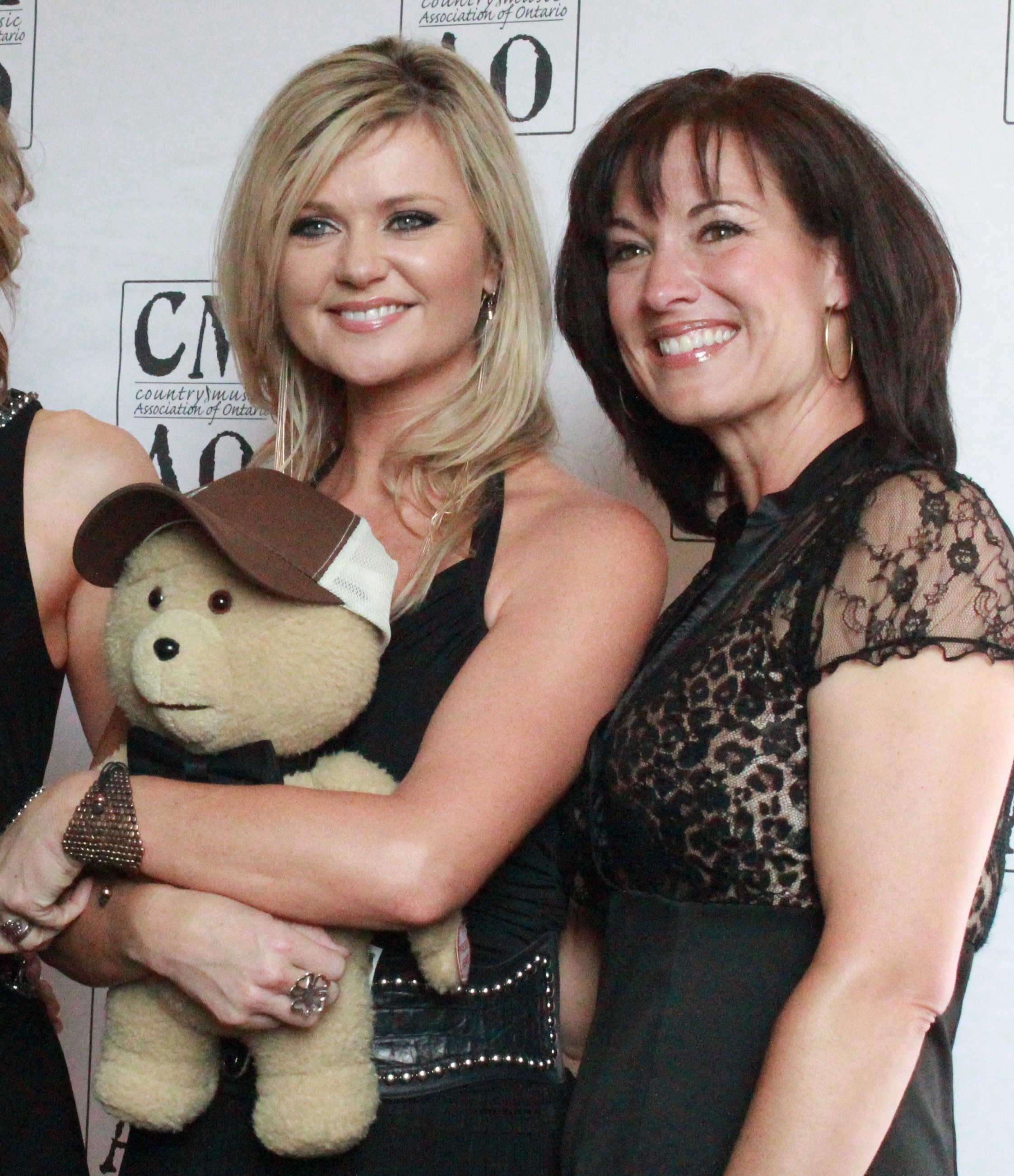 Beverley Mahood and Giselle Brohman